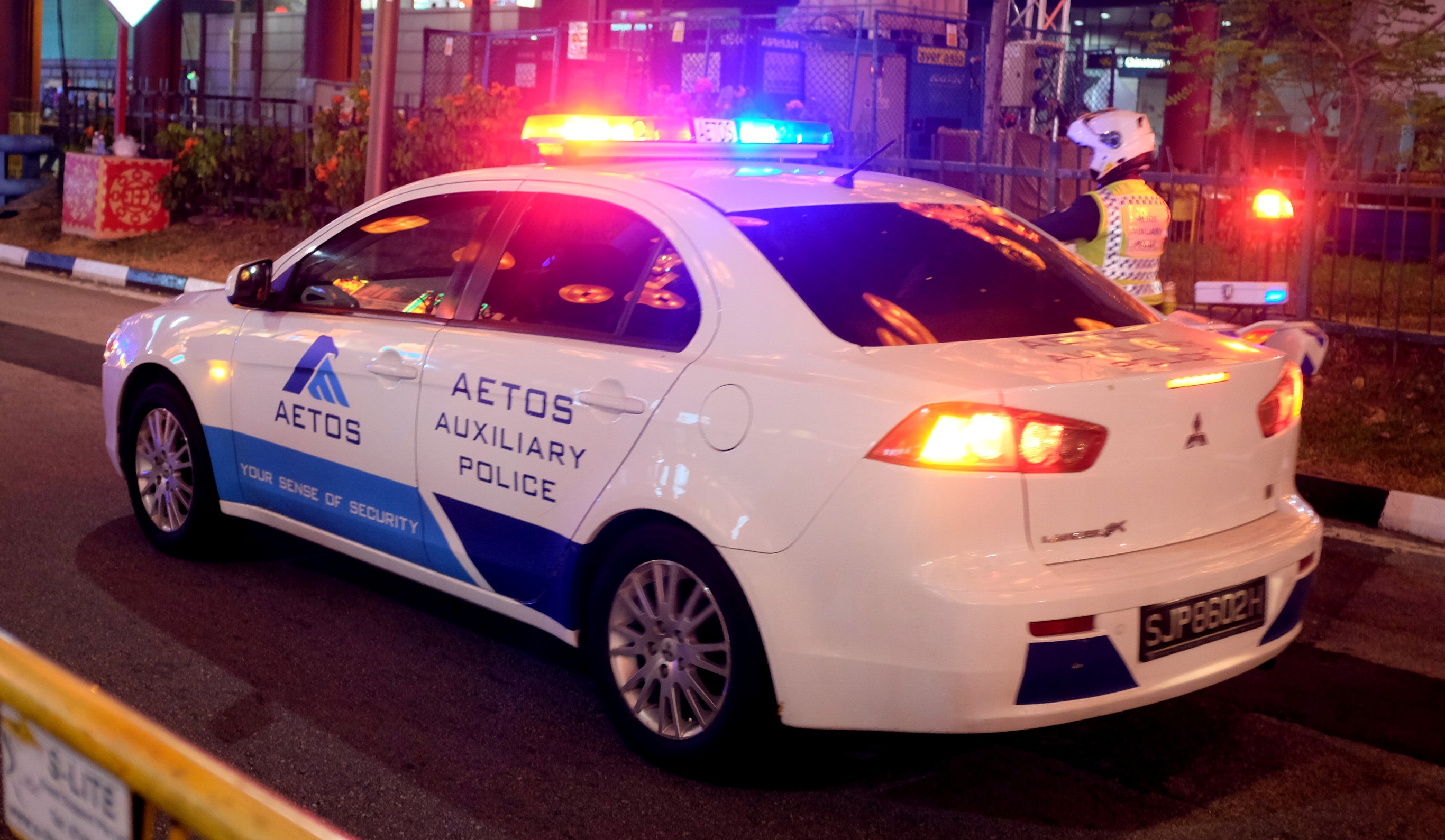 2009 Mitsubishi Lancer EX AETOS auxiliary police car in Singapore.Designed & Assembled in Japan